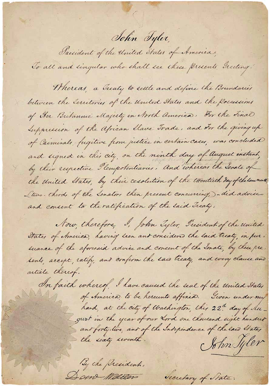 Webster - Ashburton Treaty Ratification, 08/09/1842.